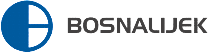 Logo of Bosnalijek.